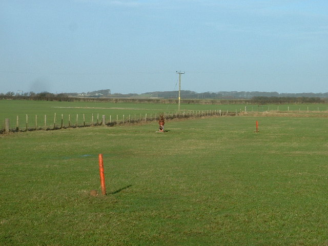 Brine Wells near Preesall. On the '40s map this area is labelled "Salt Mines" which sounds more interesting than brine wells. The underground salt layer was a factor in the development of the chemical industry in nearby Thornton [across the River Wyre]. There is one well head and what appear to be two ventilation pipes in the photo, but there are many more spread through the fields here.